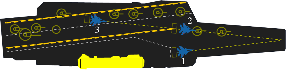 Diagram of Russian aircraft carrier Admiral Kuznetsov